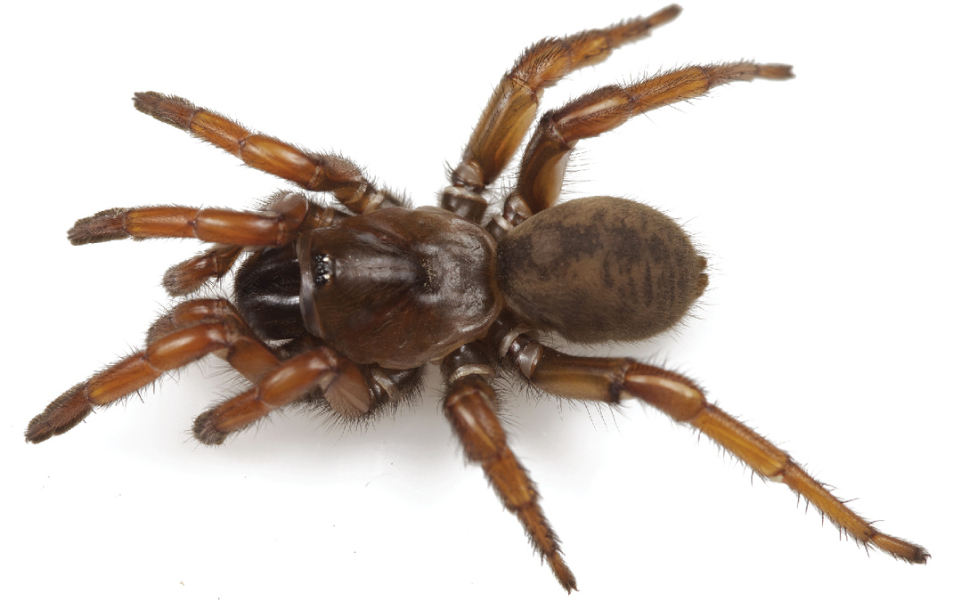 Female specimen of Aptostichus angelinajolieae specimens from Monterey Co., Monterey, live photographs.